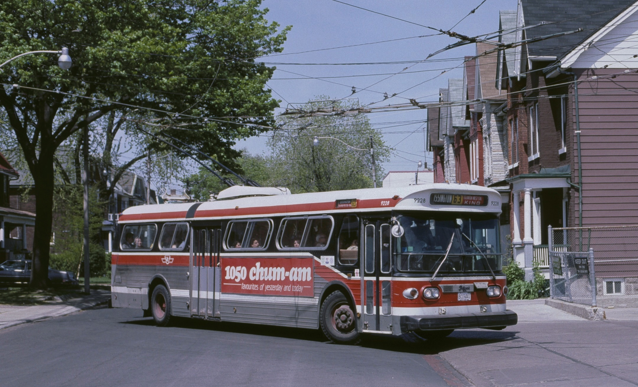 Toronto Transit Commission trolleybus 9228 on route 63-Ossington in 1987, in Toronto, Ontario. It is turning from Concord Avenue into the TTC bus loop at Ossington Station (subway station), on a southbound trip. Trolleybus 9228 was built in 1970 by Western Flyer Coach Ltd. (which changed its name to Flyer Industries in mid-1971 and later became New Flyer Industries), but fitted – by the TTC's own staff – with recycled electrical equipment taken from 1947/48 CCF-Brill trolleybuses being retired. Toronto's Flyer trolleybuses (also called trolley buses) were withdrawn in January 1992, and service on route 63 also ended permanently in that month. The last trolleybus service in Toronto (routes 4 and 6) ended in July 1993.